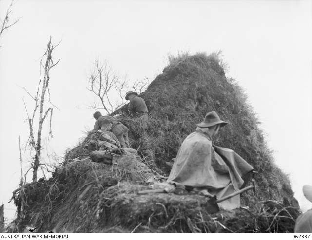 Australian infantrymen from the 2/16th Infantry Battalion around the Pimple, in the Finisterre Ranges, New Guinea, December 1943